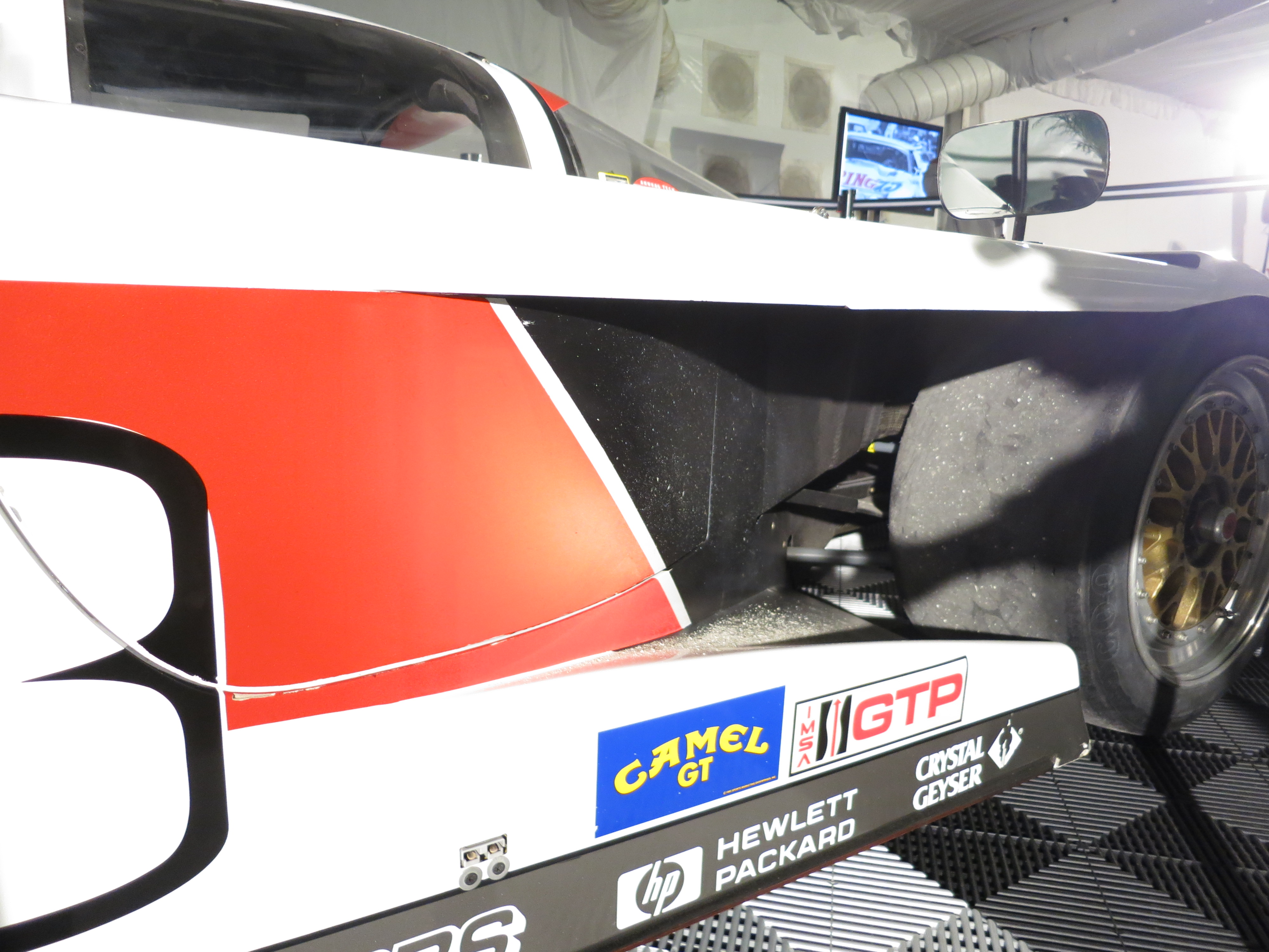 A view of the front wheek well of a Toyota Eagle MkIII on display at the Rolex 24 at Daytona.